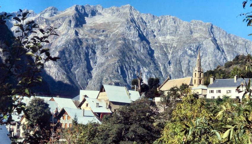 This is the village of Venosc in the French Alps. With a cable car you may reach the ski resort of les Deux Alpes within 10 Minutes